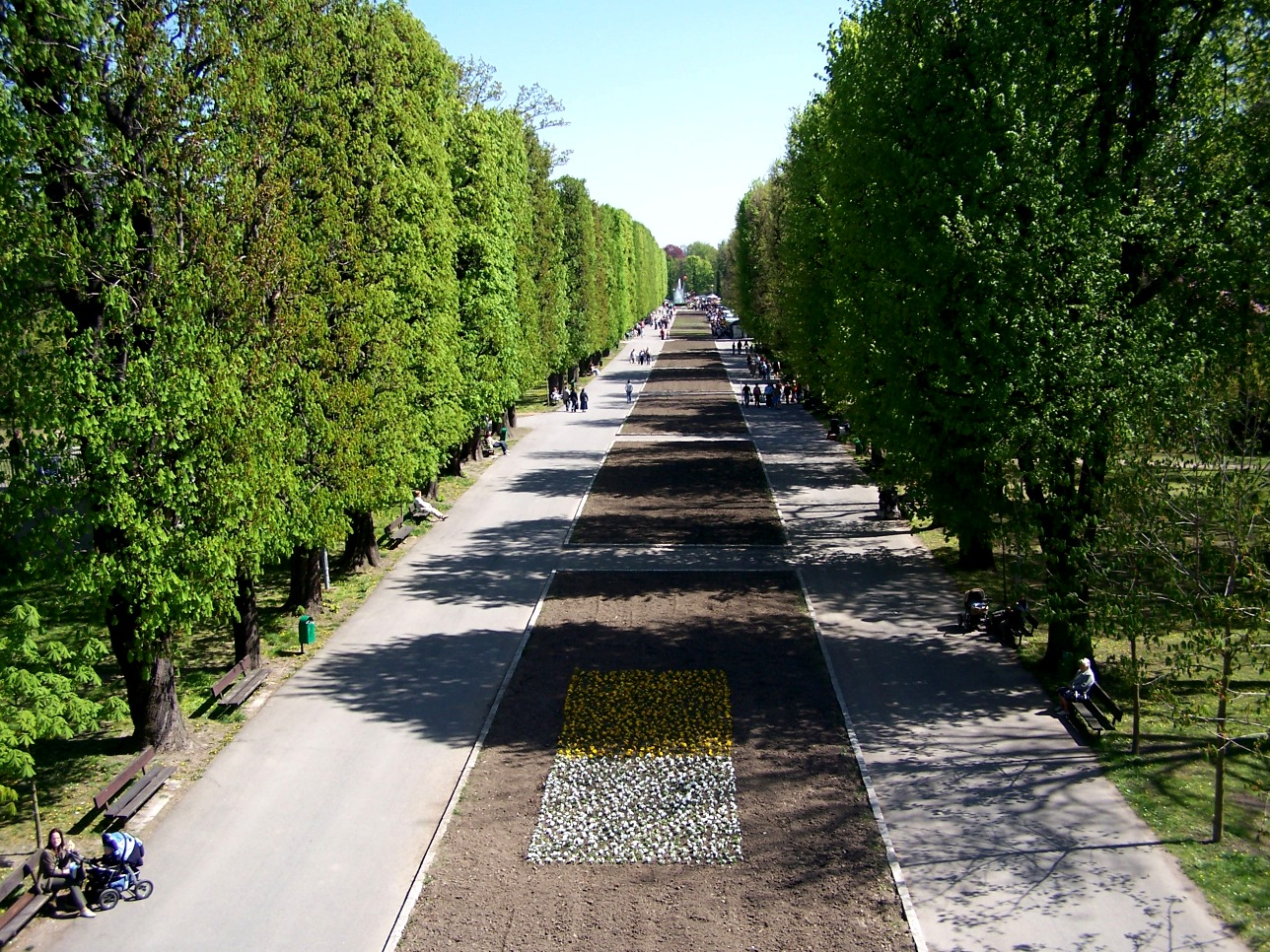 The main alley in "Smetanovy sady" Parc in Olomouc, Czech Republic